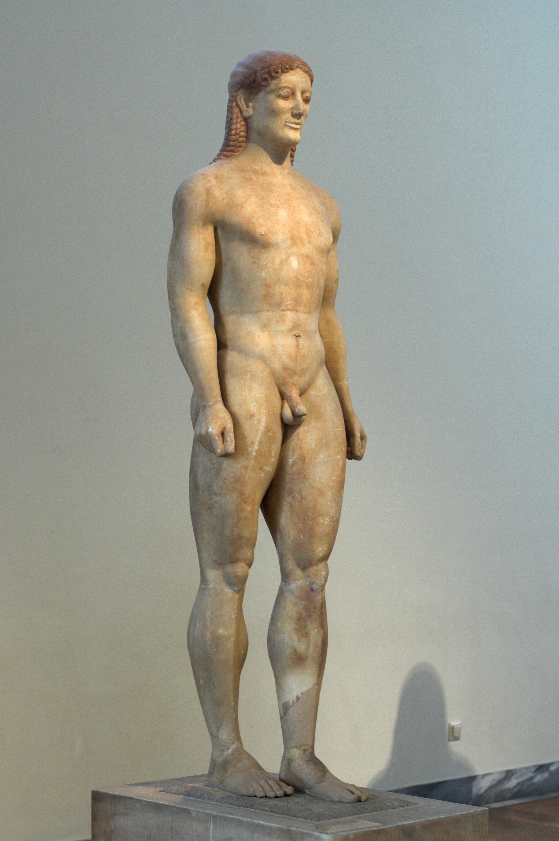 Kouros, parian marble, 194 cm tall, from about 530 BC. Anabyssos in Attica, stood at the grave of Kroisos. National Archaeological Museum of Athens N 3851.